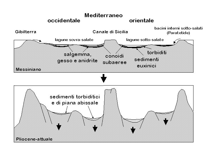 Messinian stage - Mediterranean sea - Evaporite deposits - Hypothesis of Nesteroff (1973) Text in italian